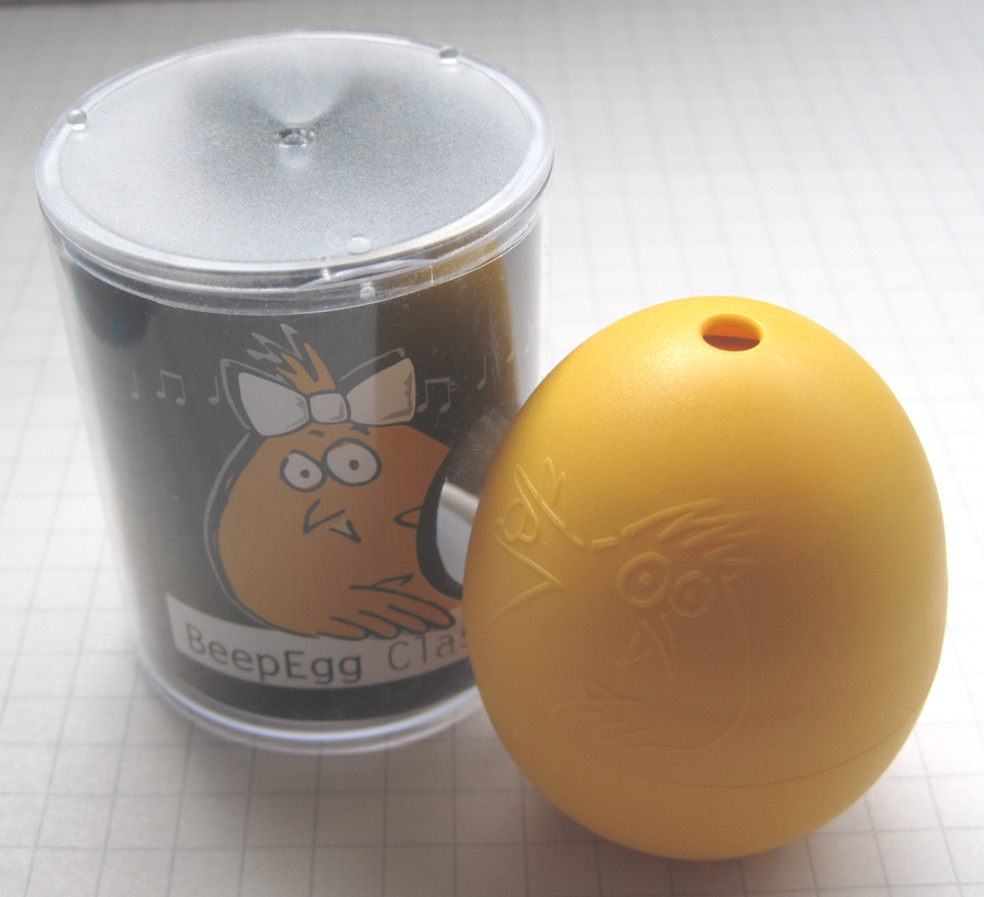 An electronic egg timer to time eggs for soft, medium and hard cooking. The timer plays a short tune at each stage of the cooking.